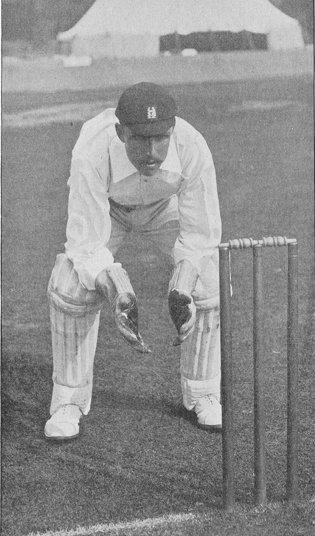 "Lilley [Dick Lilley] at the wicket"